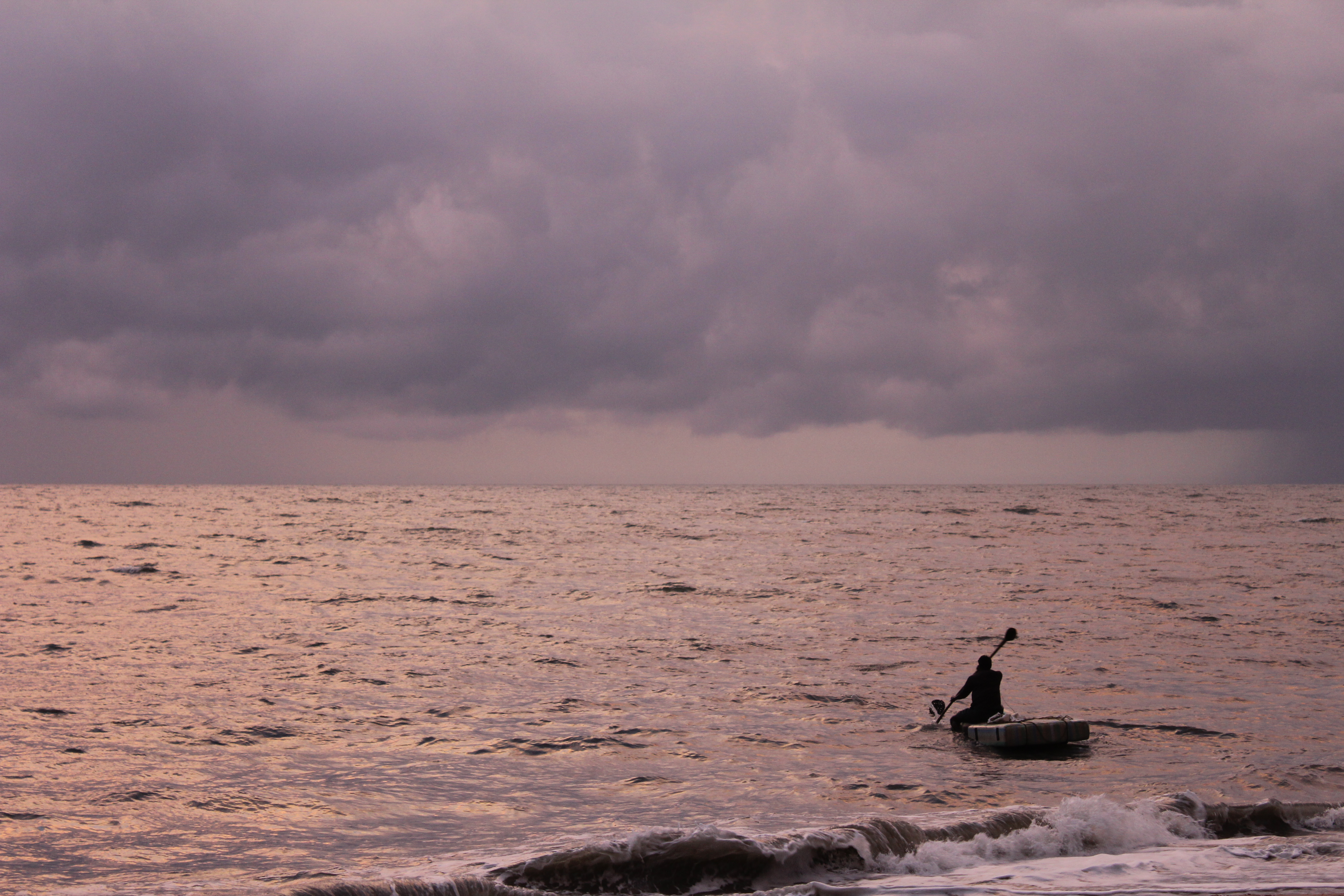 Fisherman setting off at sunset at the pristinely beautiful Marari beach